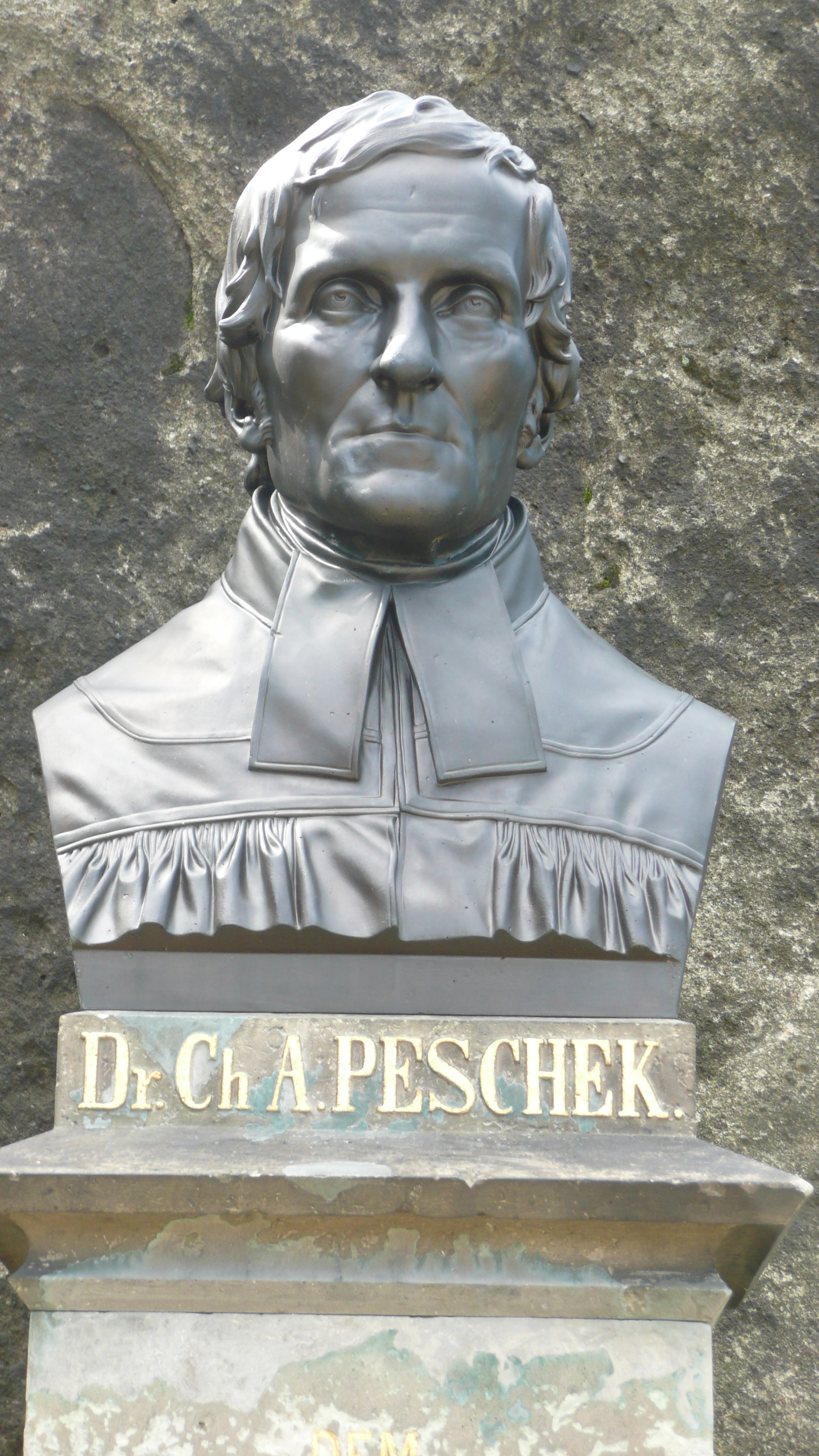 Statue of Dr. Christian Adolf Peschek at the Oybin Mountain (1861)